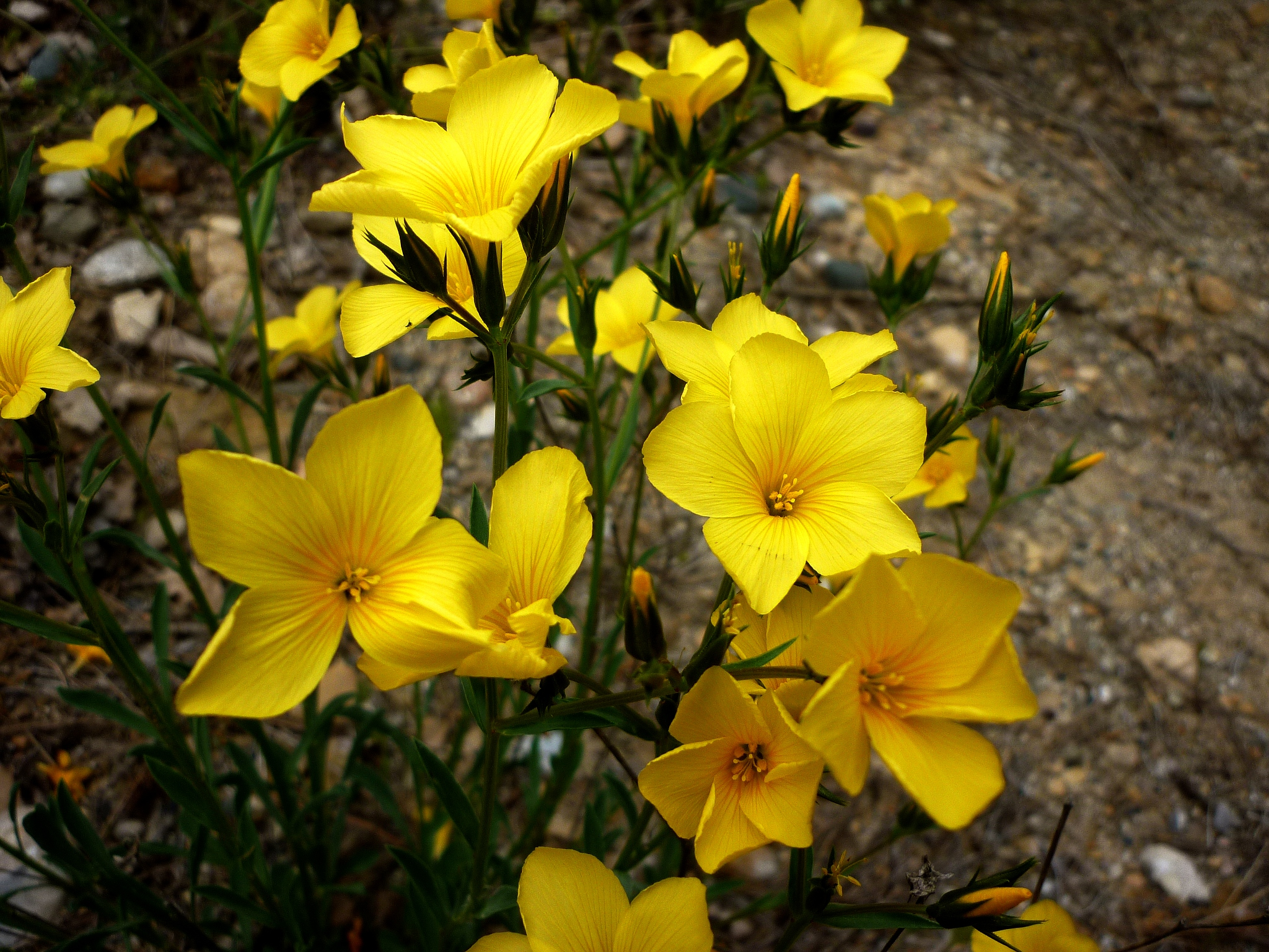 Linum campanulatum. In Tiurana (Noguera-Catalunya). To 520 m. altitude